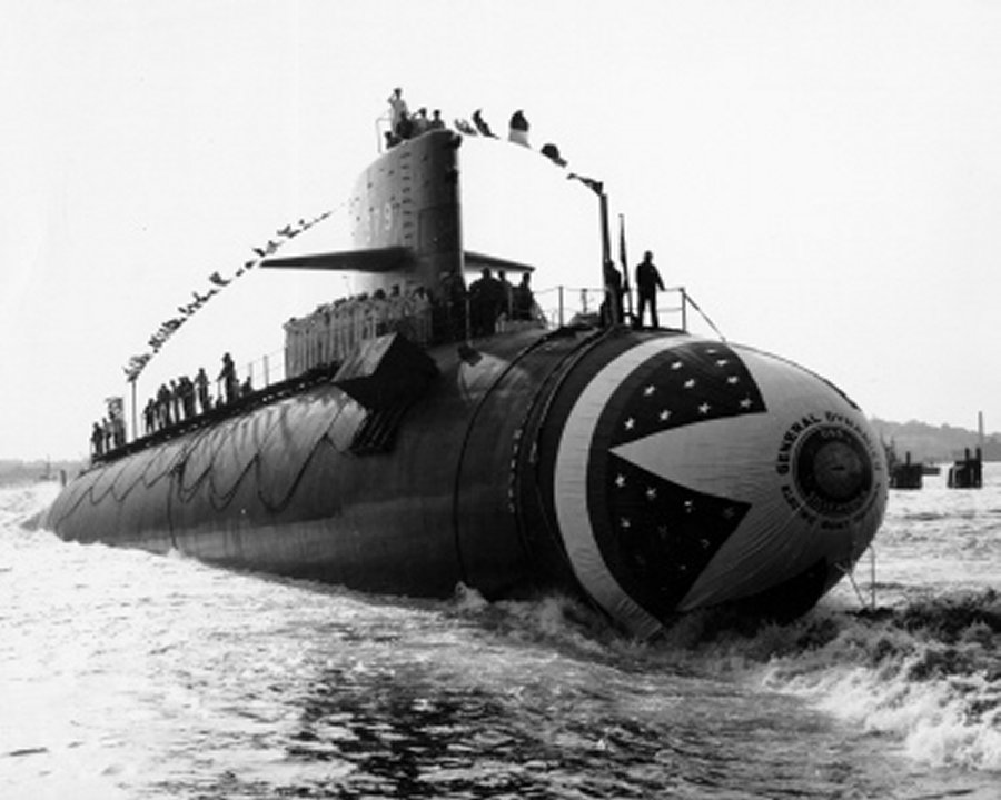 from the general dynamics electric boat photo archives.